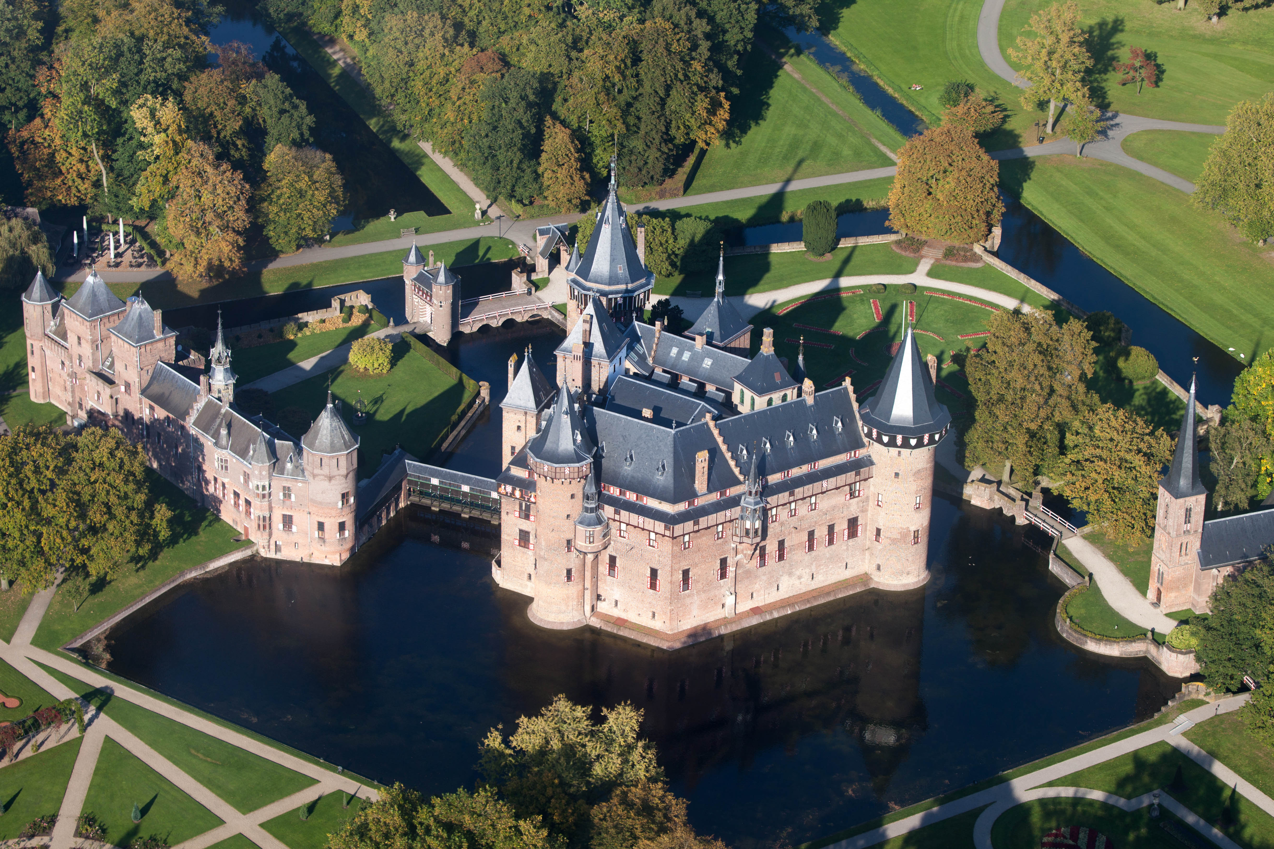 Airial photograph